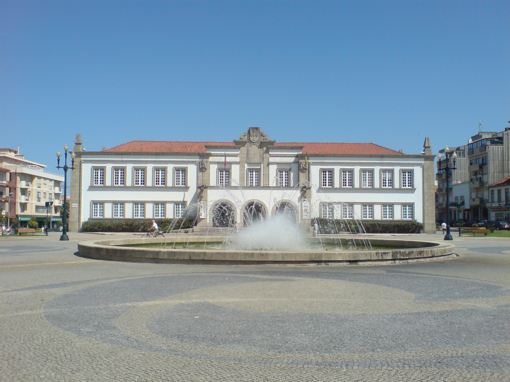 Espinho Camara Municipal, Espinho.